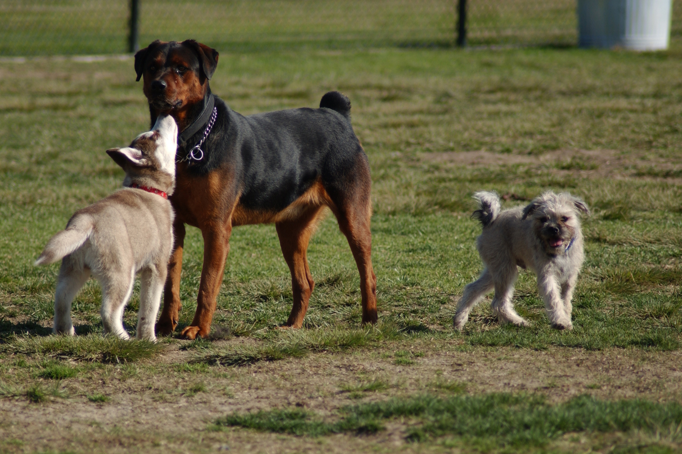 DOG.3 080120-M-1502P-003.jpg MIRA MESA, Calif. – A group of dogs gather to socialize at the Mira Mesa, Calif., Dog Park Jan. 20. According to local veterinarians, bringing your pets to the dog park helps them socialize and grow to be less aggressive. (U.S. Marine Corps photo by Rank and Name) (Released).